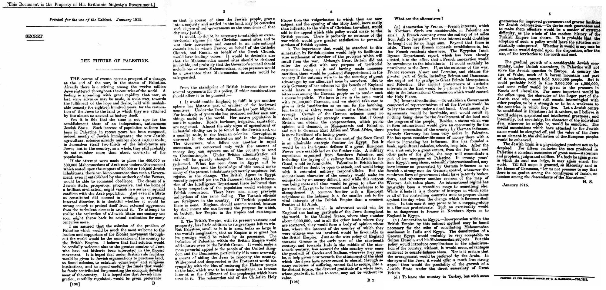 First draft of "Future of Palestine" by Herbert Samuel, memorandum 1915 CAB 37 123 43 (January 1915 version)